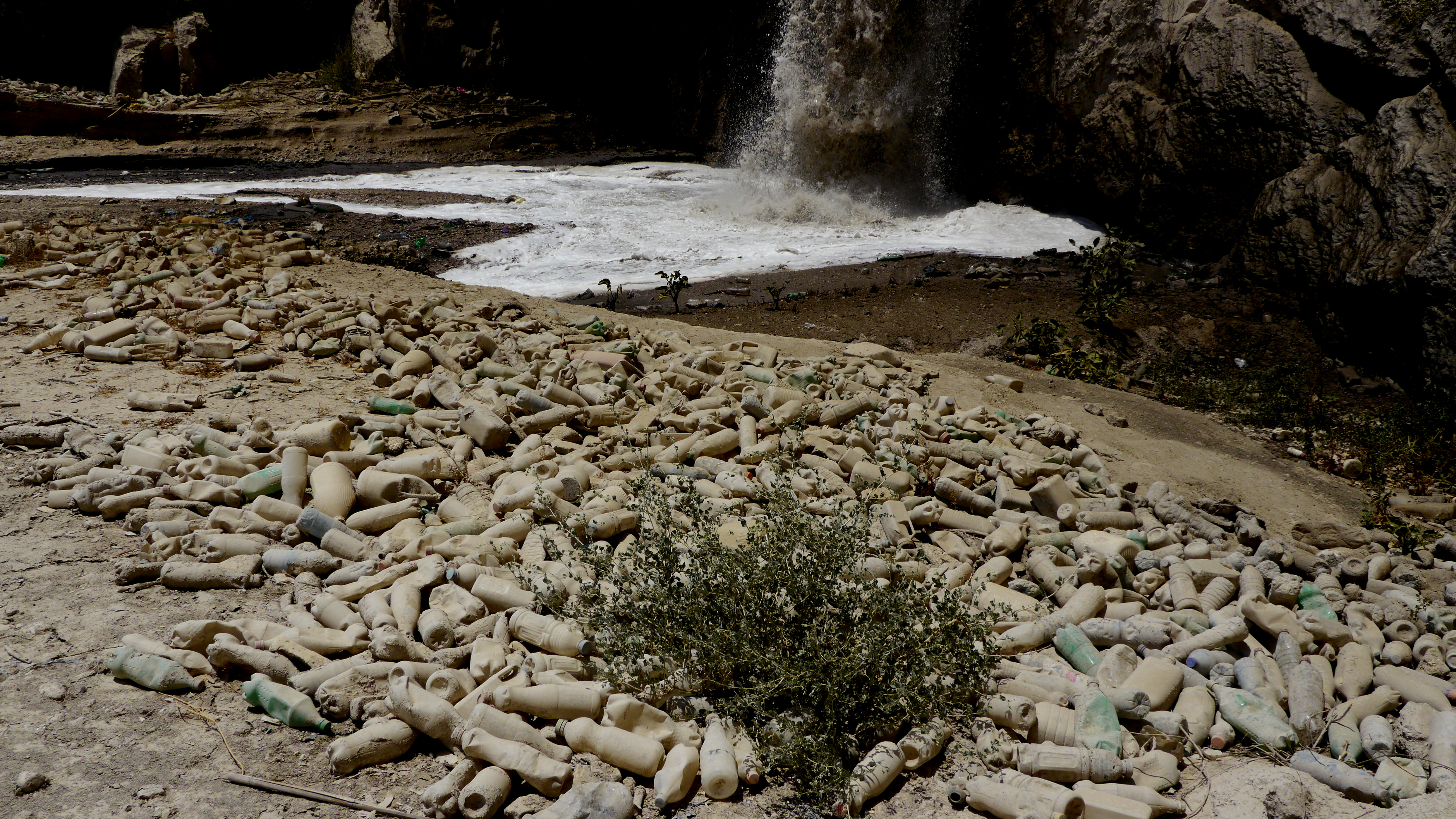 The last waterfall of the Kidron River before it flows into the dead sea. Clearly visible the pollution by plastic bottles, the bad (seweage) stench can be guessed by the foam and color of the water.